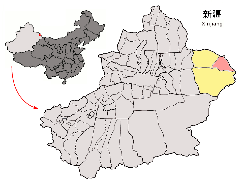 Location of Yiwu County (pink) and Hami Prefecture (yellow) within Xinjiang autonomous region of China Map drawn in september 2007 using various sources, mainly : Xinjiang Uygur autonomous region administrative regions GIS data: 1:1M, County level, 1990 Xinjiang Counties map from